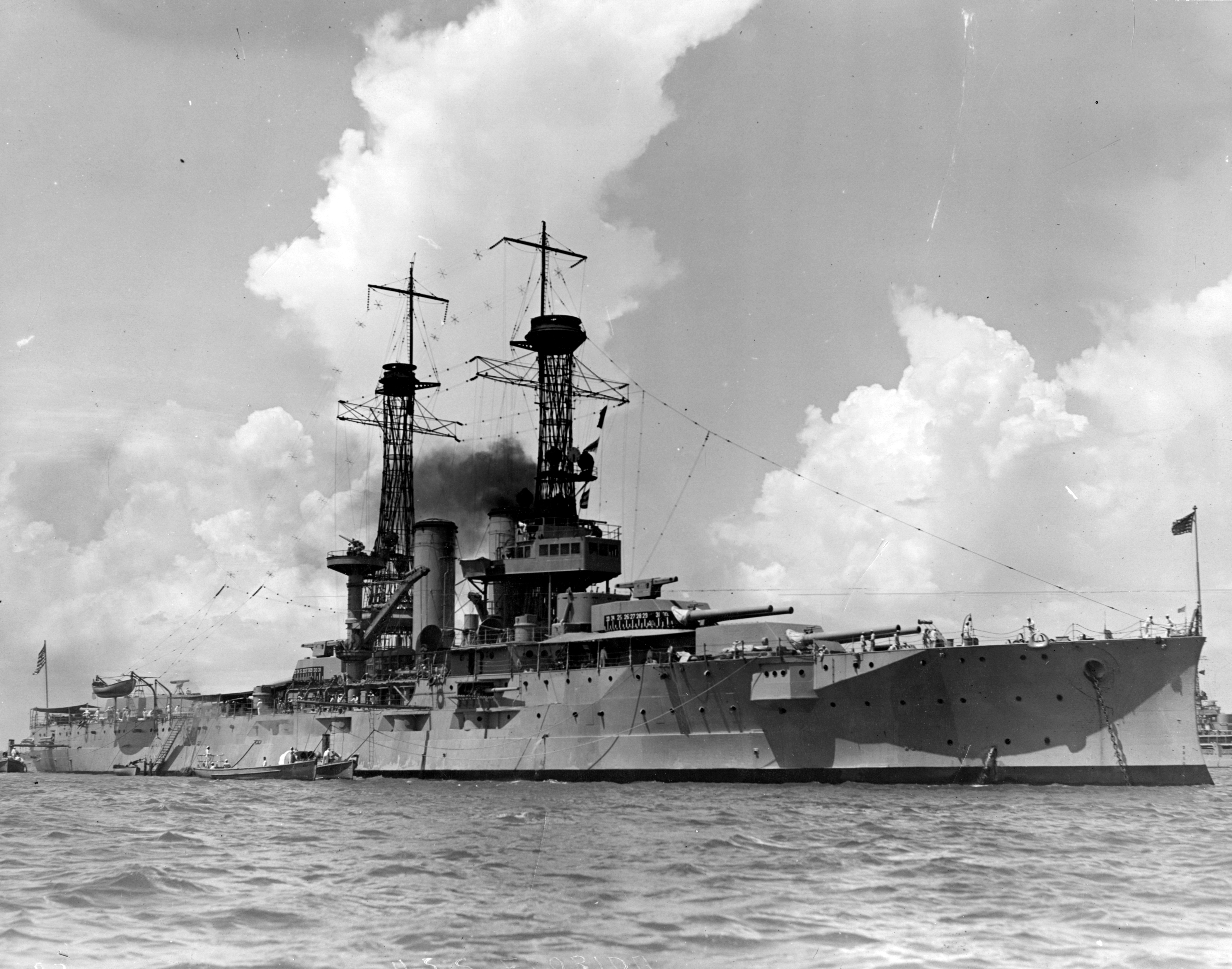 Anchored in harbor, circa 1921. Courtesy of Gustave Maurer, ex-Chief Photographer, 1921. U.S. Naval History and Heritage Command Photograph.